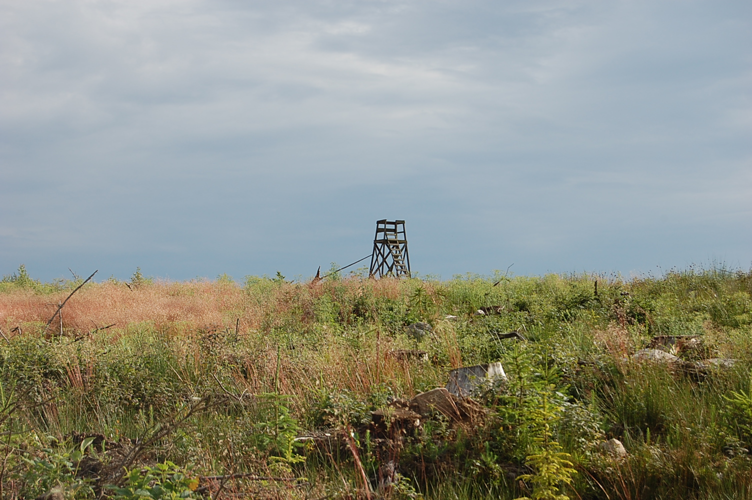 hunting tower at a clearcutting in the county of Sölvesborg, Sweden